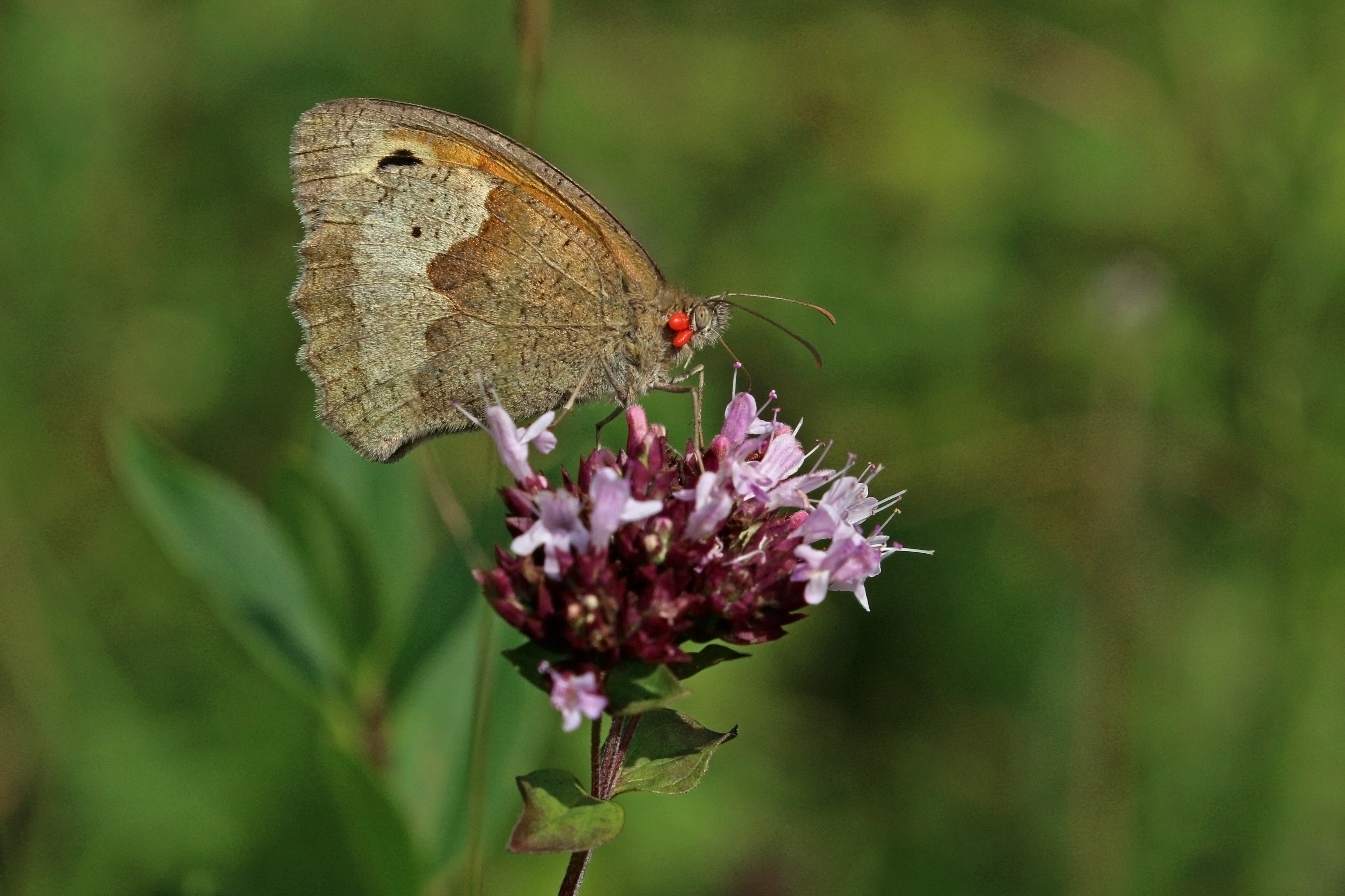 Meadow brown butterfly (Maniola jurtina) with the parasitical mite trombidium breei